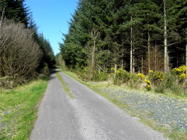 Road at Bellaheady townland, parish of Tullyhunco, Co. Cavan, Republic of Ireland